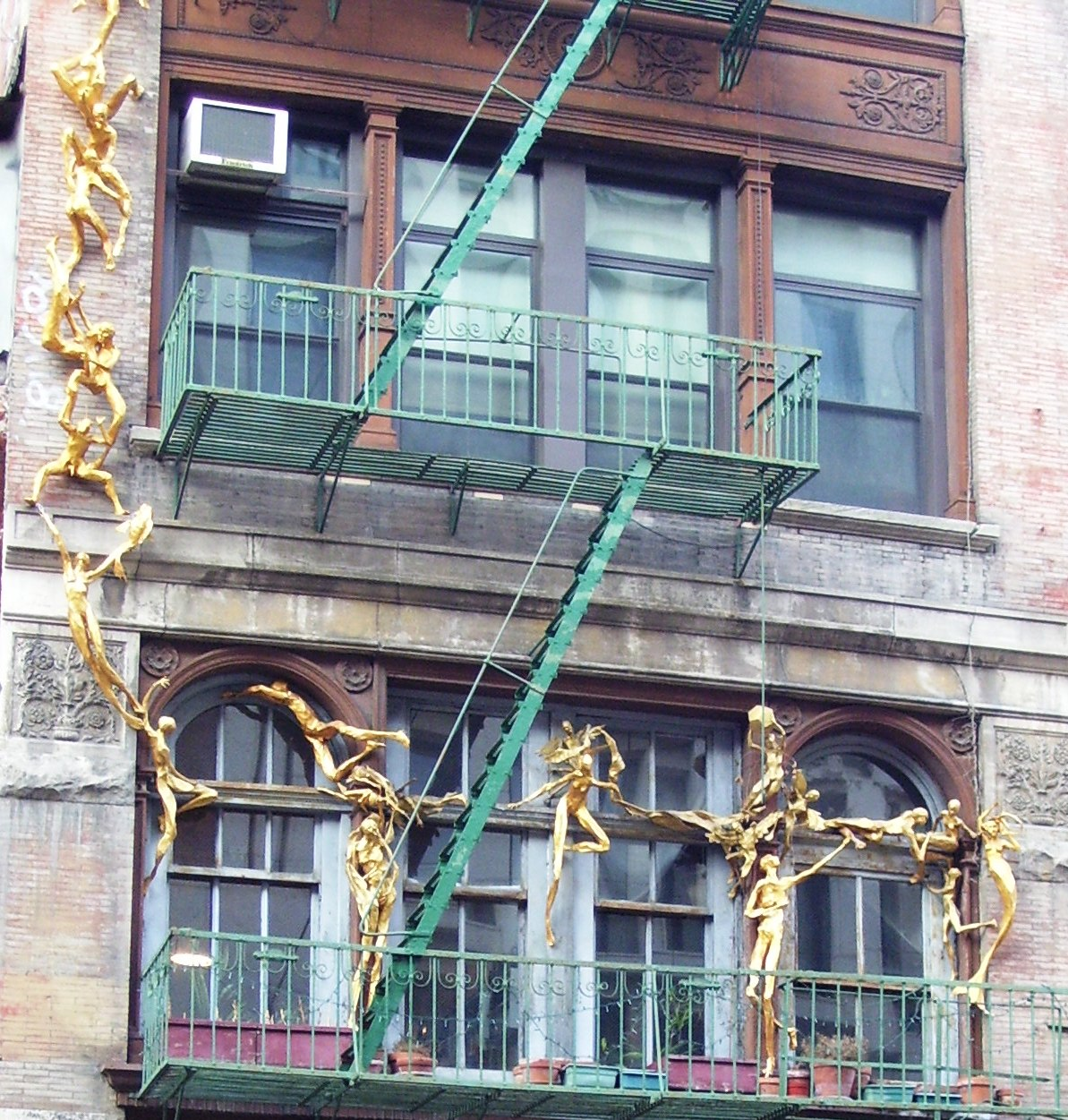 The Gene Frankel Theater at 24 Bond Street between the Bowery and Lafayette Street in the NoHo neighborhood of Manhattan, New York City. The building was constructed in 1893 and designed by Buchman & Deisler in Renaissance Revival style. The building was the location of Robert Mapplethorpe's studio from c.1972 until his death in 1989. The Gene Frankel Theater has occupied the street floor since 1986. The gold dancers on the outside of the building by sculptor Bruce Williams were added in 1998, and had to be retroactively approved by the NYC Landmarks Preservation Commission when the NoHo Historic District was extended to include the building in 2008. (Sources: NYCLPC Noho Historic District Extension Designation Report and [1], [2] from Curbed)